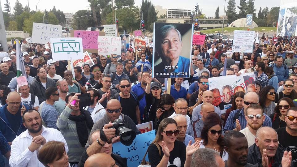 TEVA workers protest in Jerusalem aginst the compeny Intent to fair 1750 workers in Israel